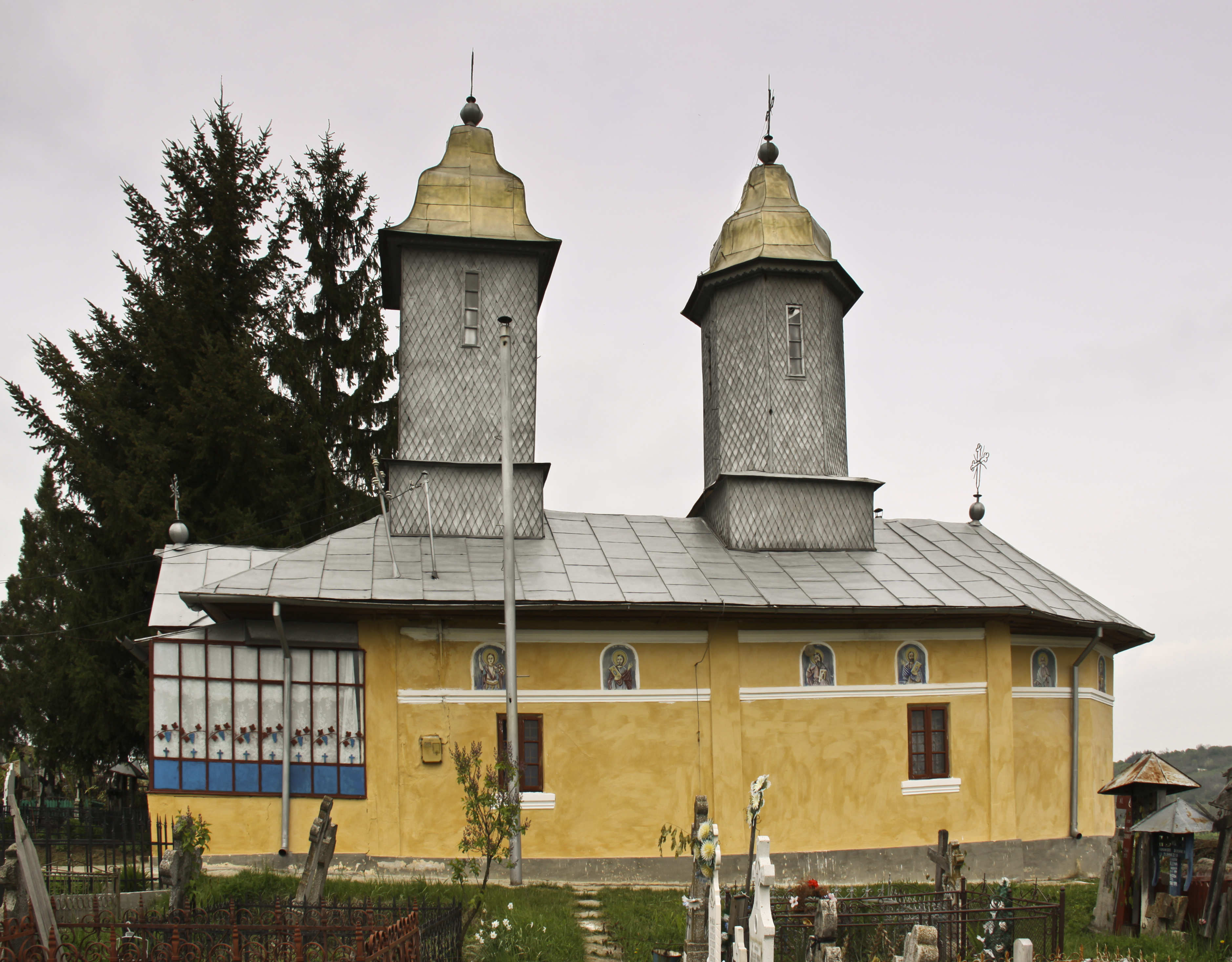 Mamu, Vâlcea county, Romania: the wooden church.